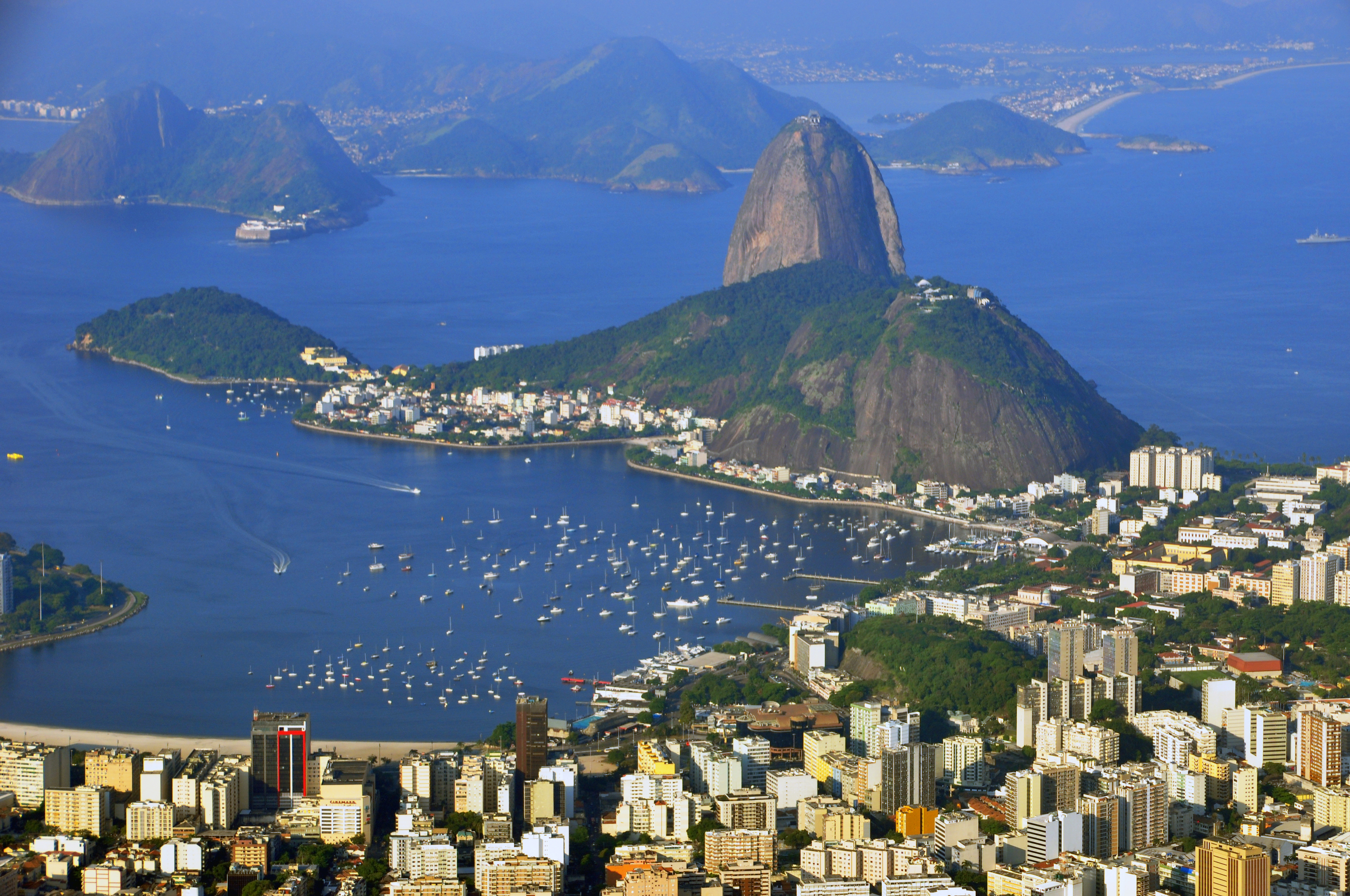 Sugar Loaf Mountain as seen from Cristo Redentor Christ the Redeemer Rio de Janeiro 2010 Flamengo Copacabana